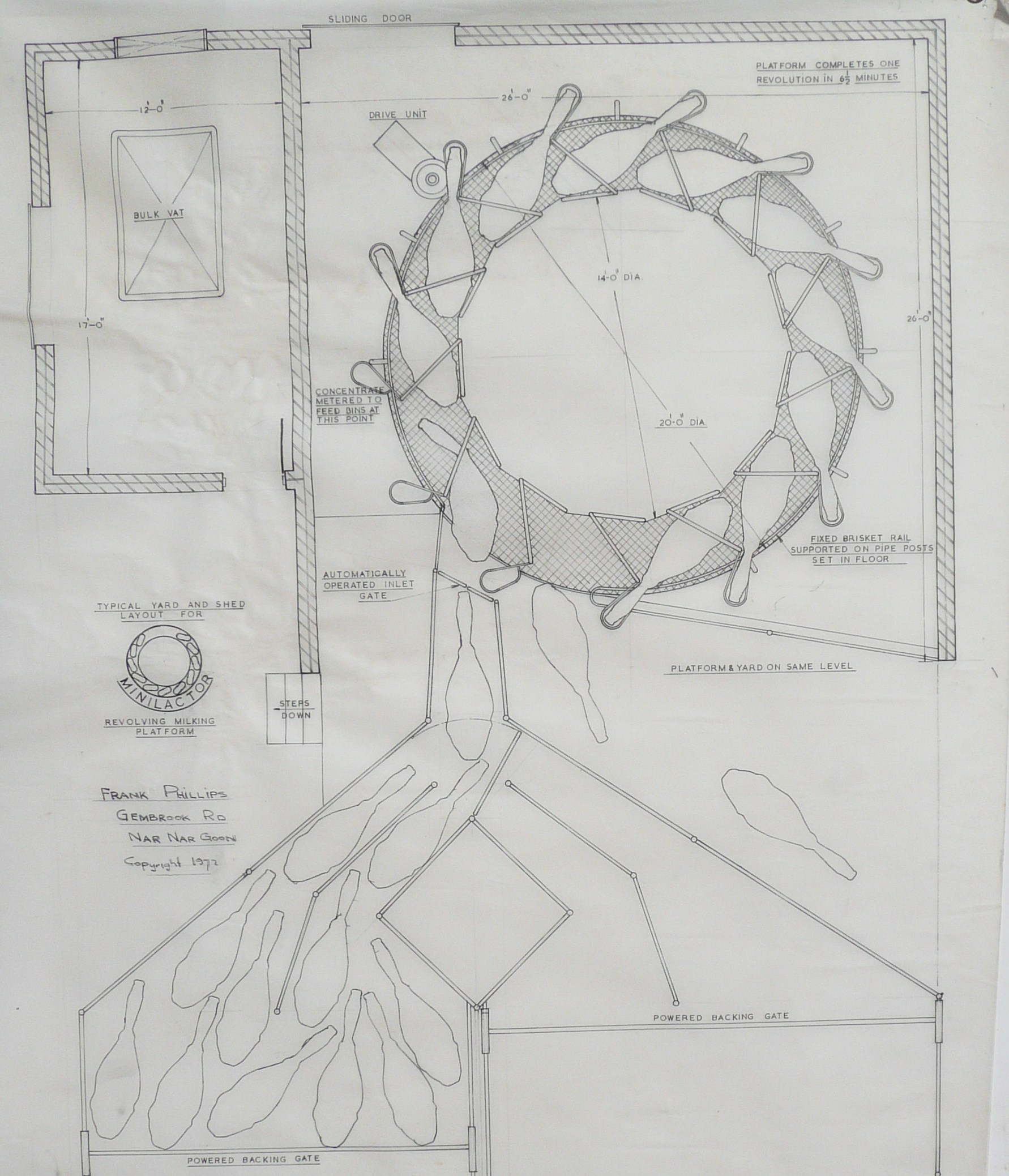 Typical layout of Rotary Herringbone(minilactor)milking platform